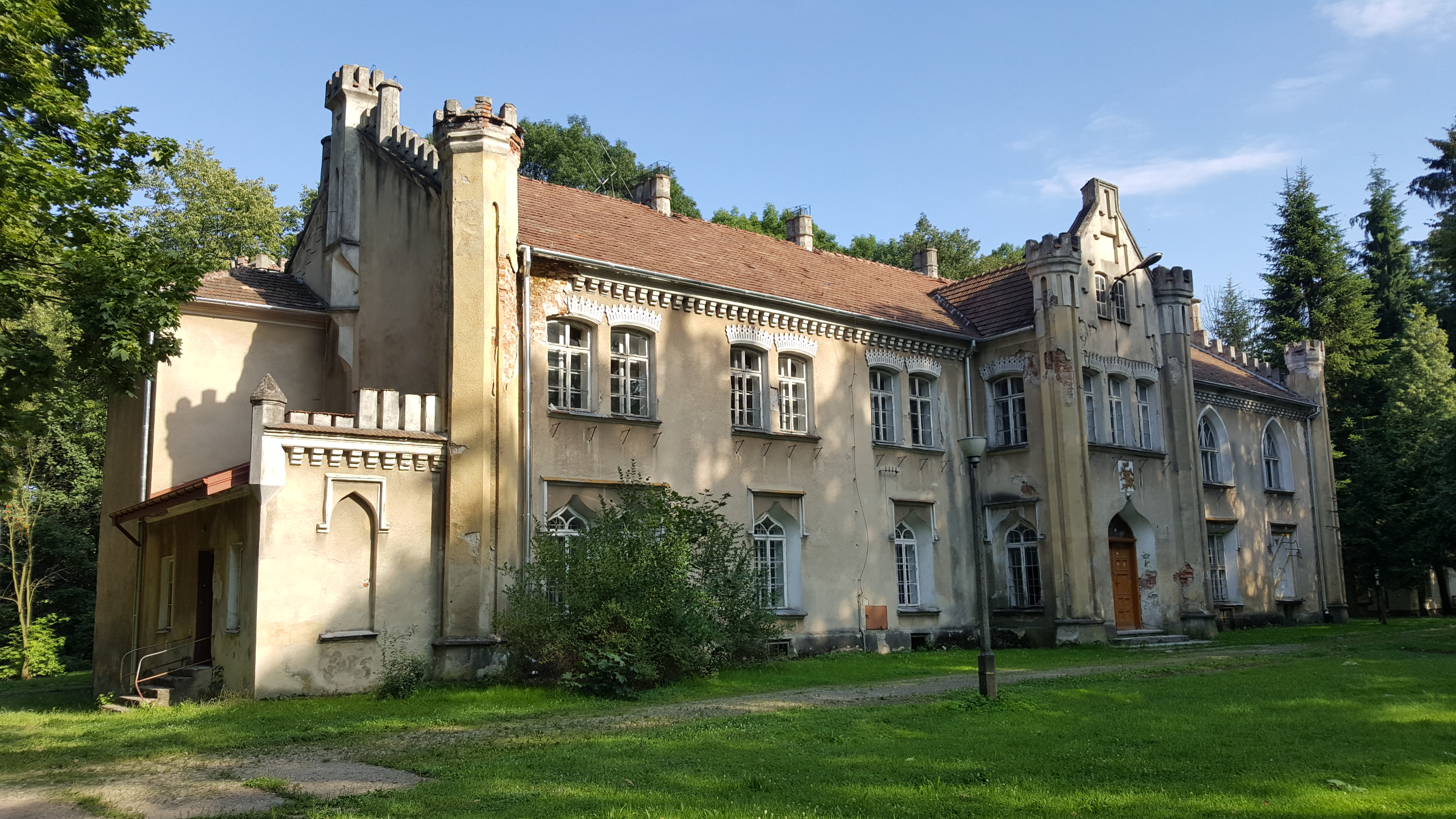 Dambski Palace in Wojnicz.